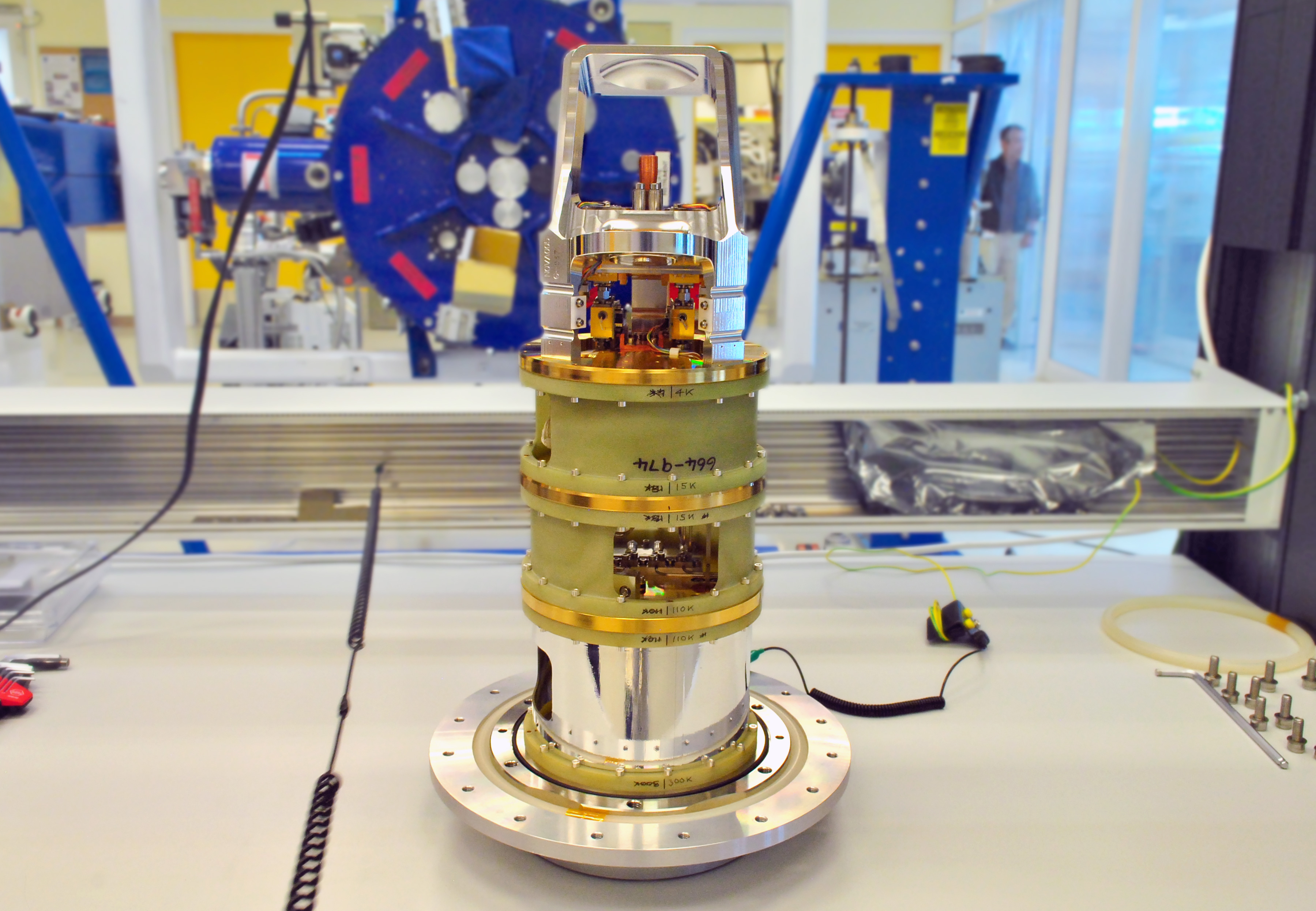 Band 5 receiver integrated into a Front End with all the others Bands (3 to 10).